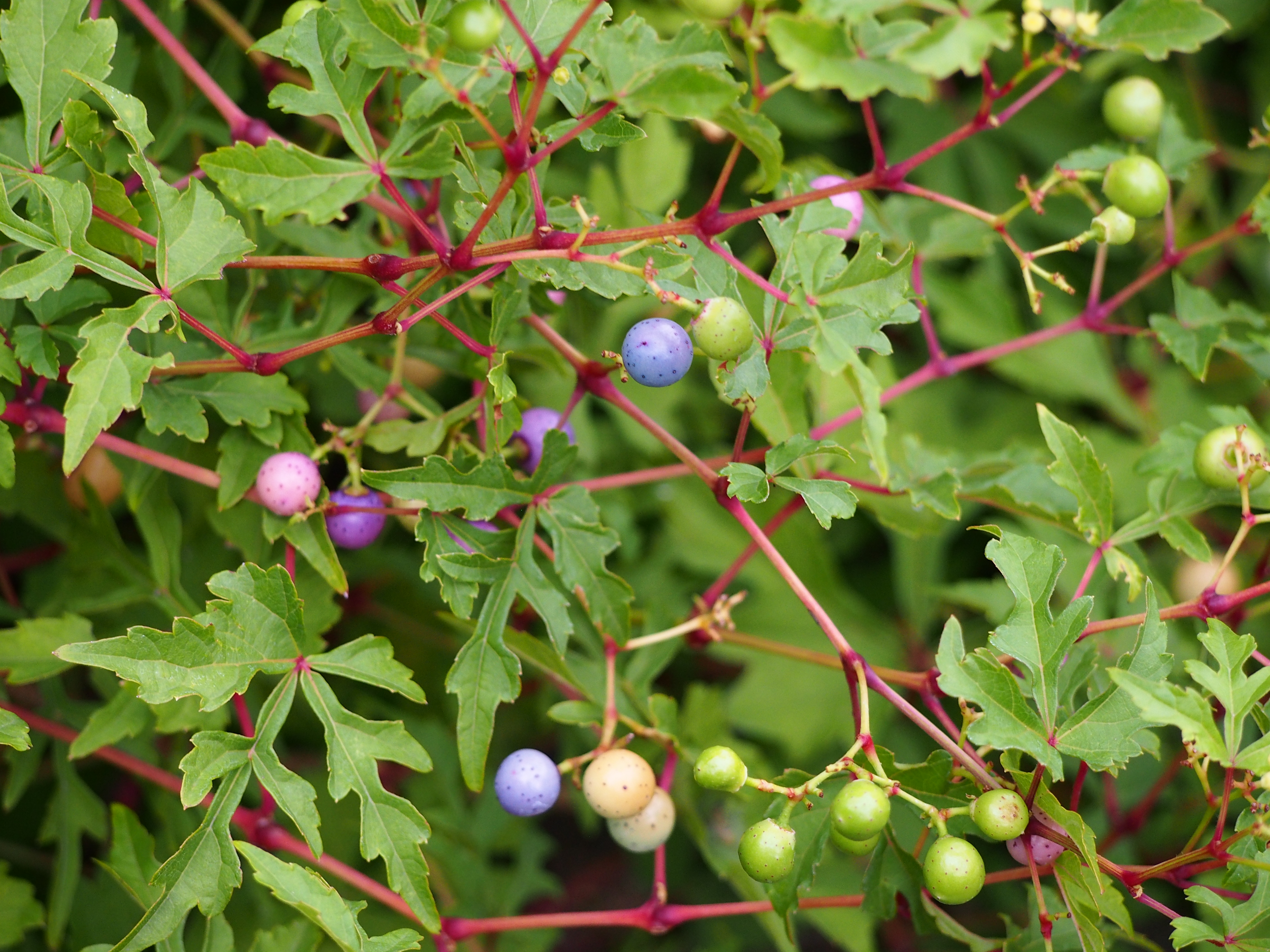 Ampelopsis japonica, fruits, cultivated in Wrocław University Botanical Garden, Wrocław, Poland.